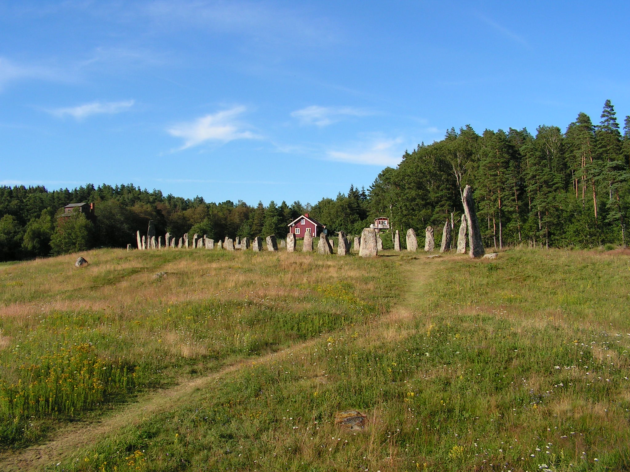 Blomsholm stone ship, Strömstad municipality, Bohuslän, Sweden.